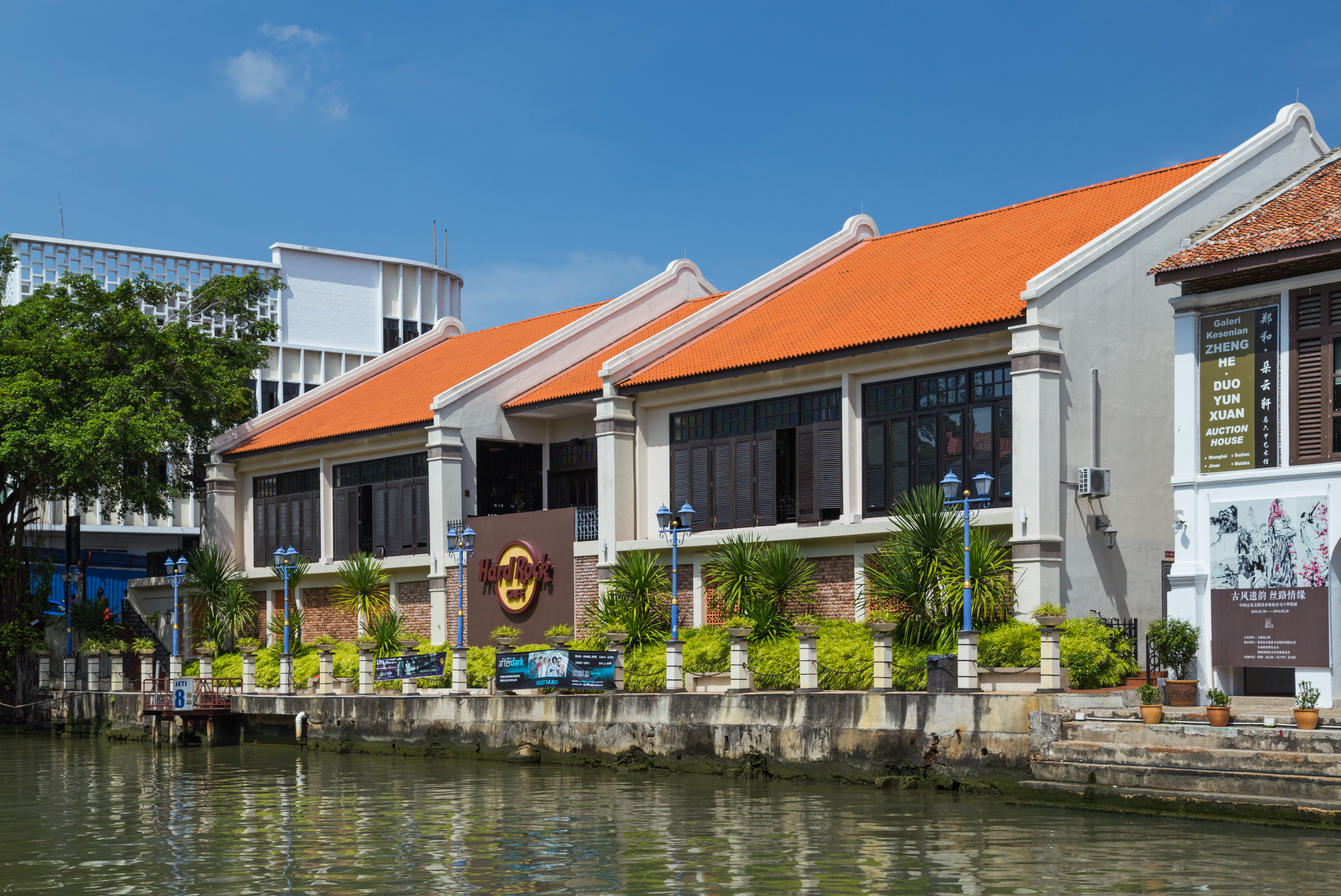 Buildings on the Malacca River. Malacca City, Malacca, Malaysia.